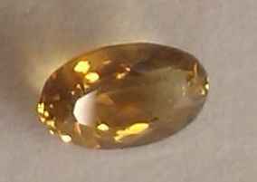 Oval cut golden chrysoberyl, 1.98 ct.